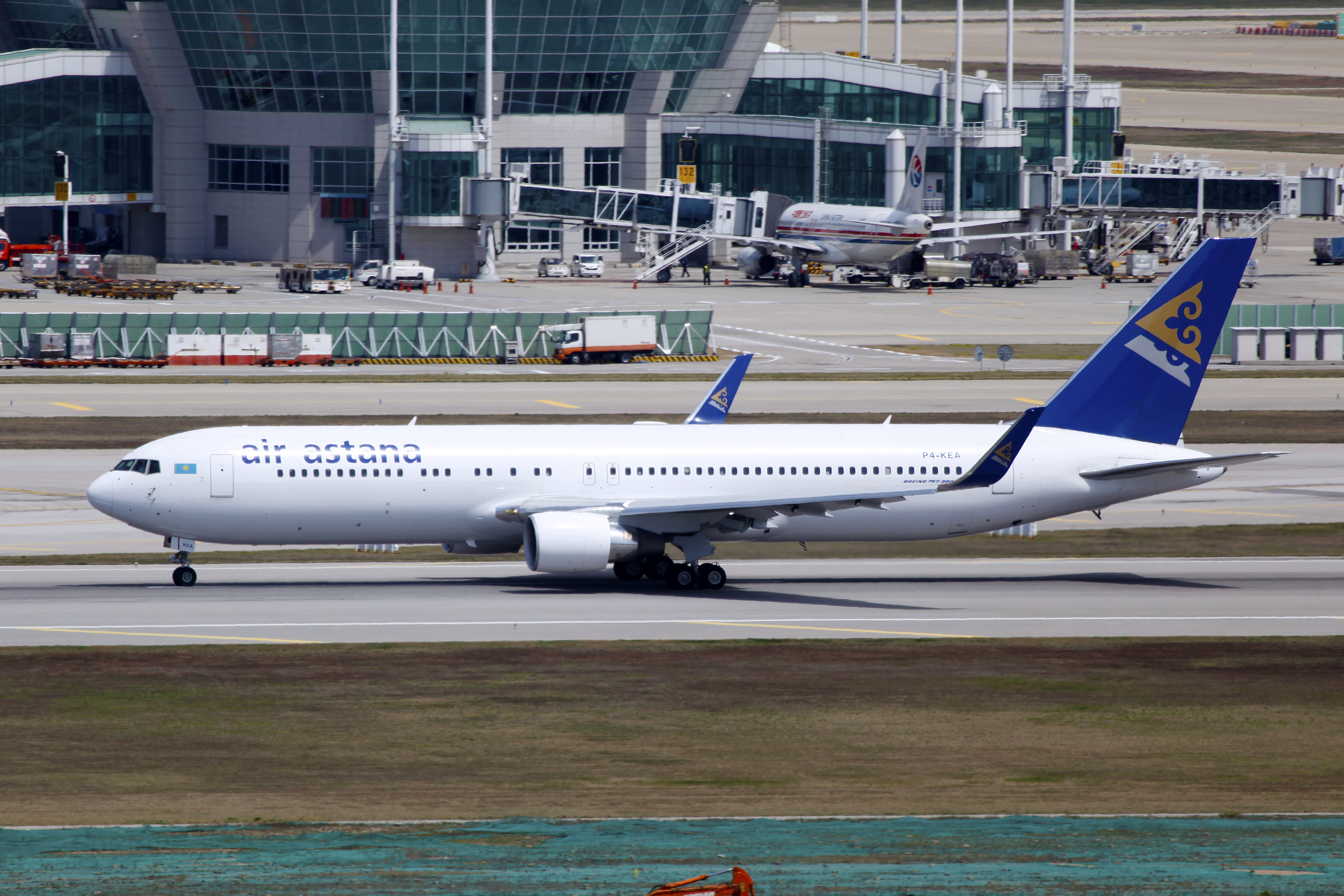 Air Astana Boeing 767-3KY(ER)(WL) Seoul Incheon International Airport [ICN]